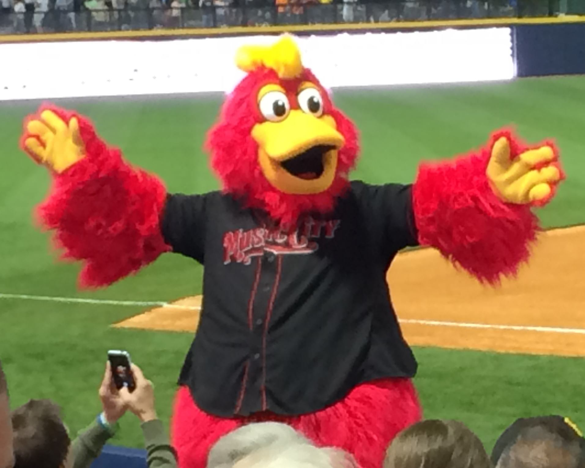 Booster, mascot for the minor league Nashville Sounds, during a game at First Tennessee Park on April 17, 2015